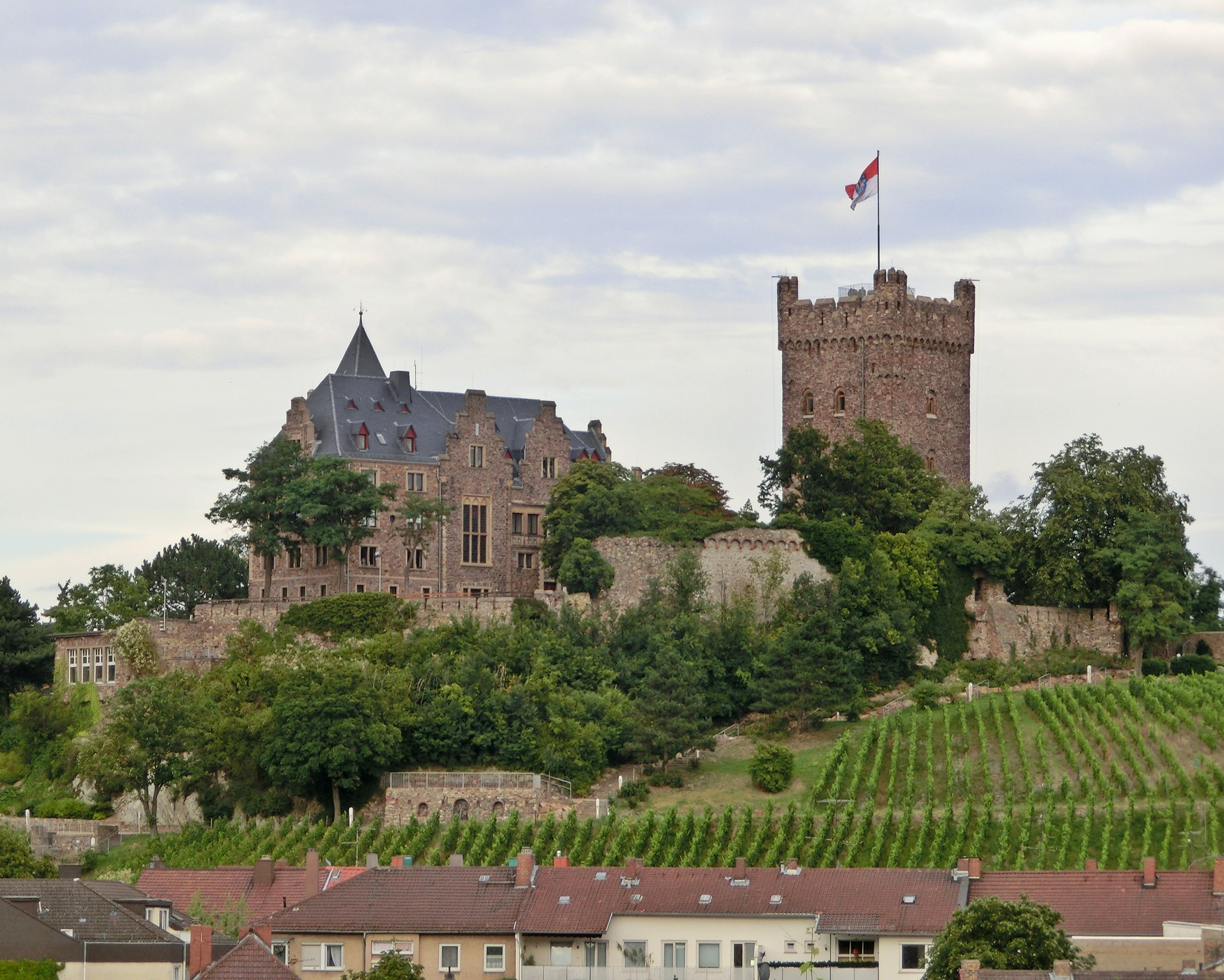 Klopp Castle above Bingen am Rhein, Rhineland-Palatinate, view from West.